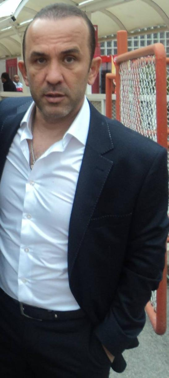 Mehmet Özdilek, Turkish footballer and manager.